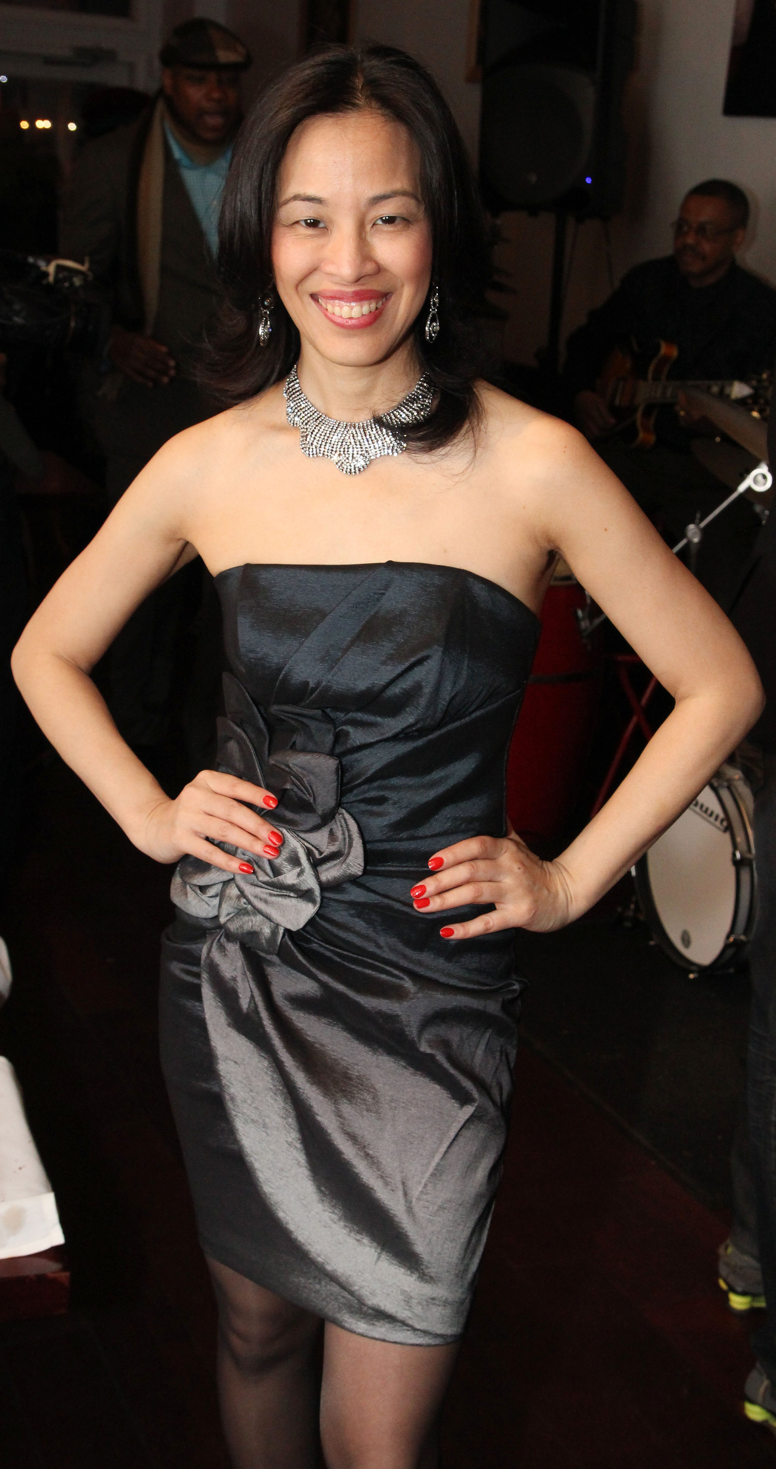 Lia Chang in New York on March 22, 2014.